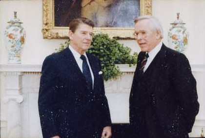 Ed Meese and unidentified person (1-3) Ed Meese with unidentified person President Ronald Reagan and Mohammed Hosni Mubarak (5-8) Departure of Mohammed Hosni Mubarak, Statements President Ronald Reagan, Patrick Burnside, Linda Smyre, Dr. Burnside, Shawn Hart, Charles Wolfe, Kevin Moll, Ronald Rupp, Joseph Swindel, J.L. Tarr, Dr. MacAvoy, A. Zach Hirsch, and Katharine Hirsch (9-20) Ceremony to receive the Boy Scouts Annual Report to the Nation President Ronald Reagan, Robert Schuller, Michael Nason, and Elizabeth Dole (21-29A) Photo Op. With Reverend Robert Schuller and Michael Nason